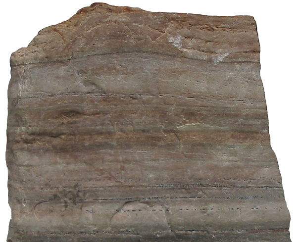 Photographer: Siim Sepp This rock is a property of museum of geology of University of Tartu.